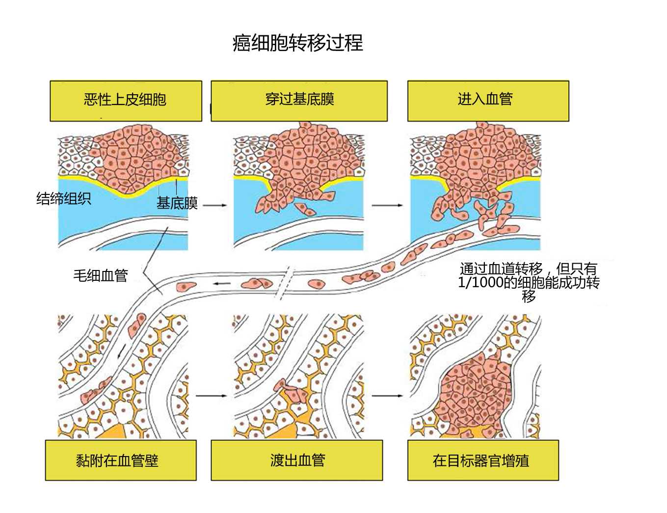 Illustration of Metastasis